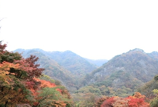 Naejangsan